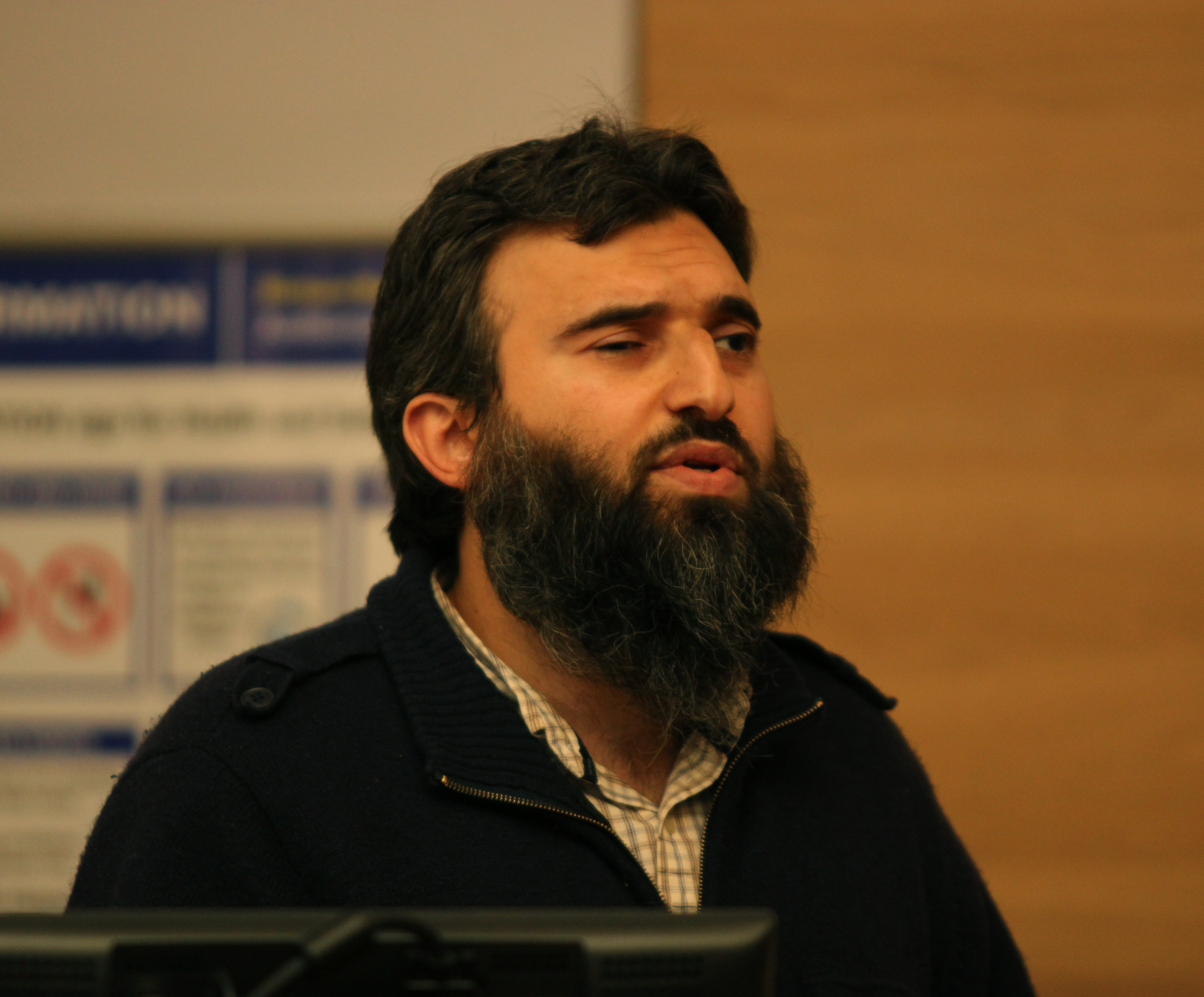 Omar Deghayes speaking at an event "Resisting Empire: Global Resistance to Guantanamo and Torture" in Sheffield, United Kingdom on 2012-10-05.